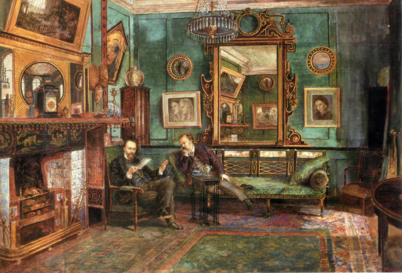 Dante Gabriel Rossetti reading proofs of Sonnets and Ballads to Theodore Watts-Dunton in the drawing room at 16 Cheyne Walk, London